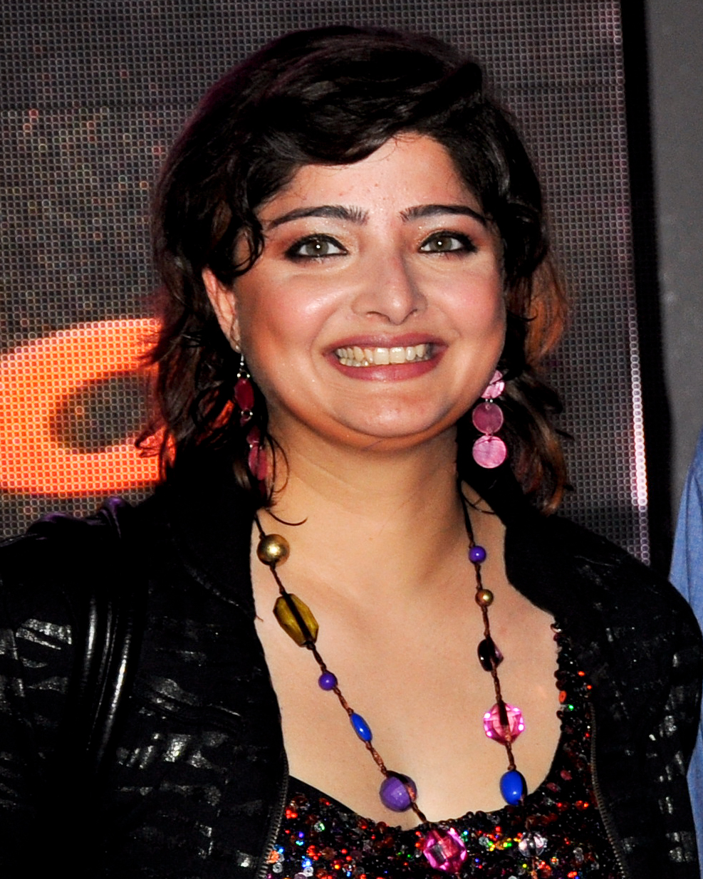 Vasundhara Das